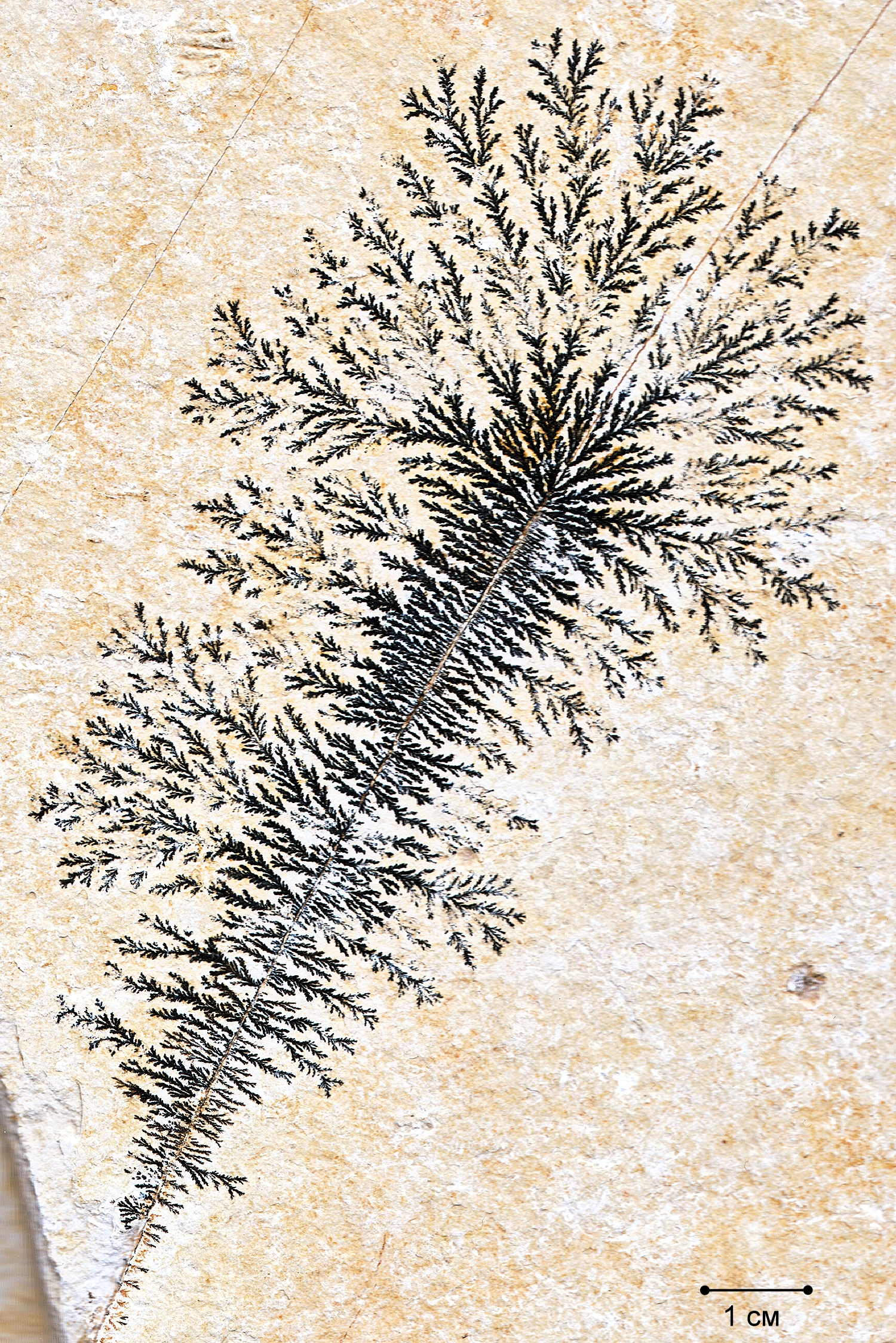 Manganese(?) dendrite associated with a joint on a bedding surface of Solnhofen Limestone, Franconian Jura, Bavaria, Germany